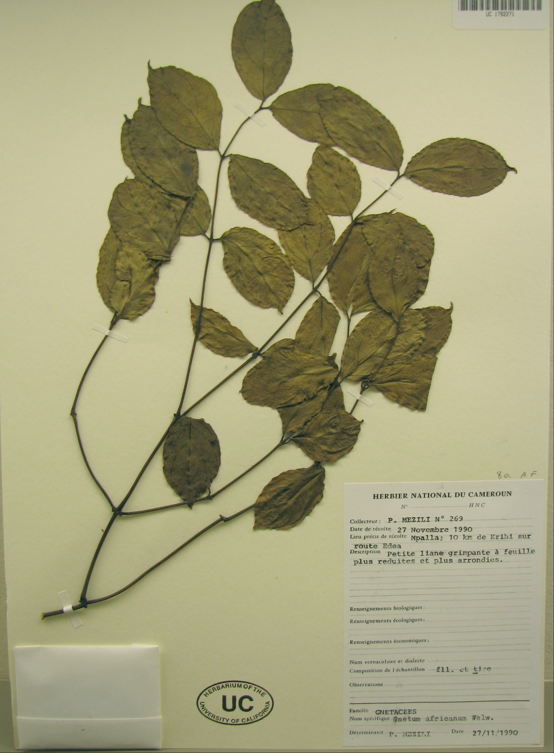 Gnetum africanum UC specimen 1782271 collected 27 November 1990 P. Mezili no. 269 Mpalla, 10 km de Krib